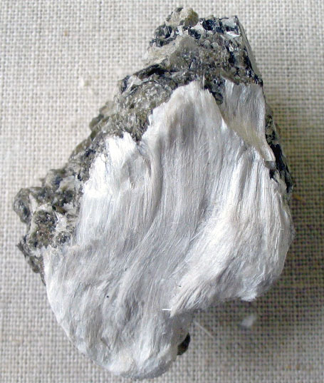 Asbestos (tremolite) silky fibres on muscovite from Bernera, Outer Hebrides. Photograph taken at the Natural History Museum, London.